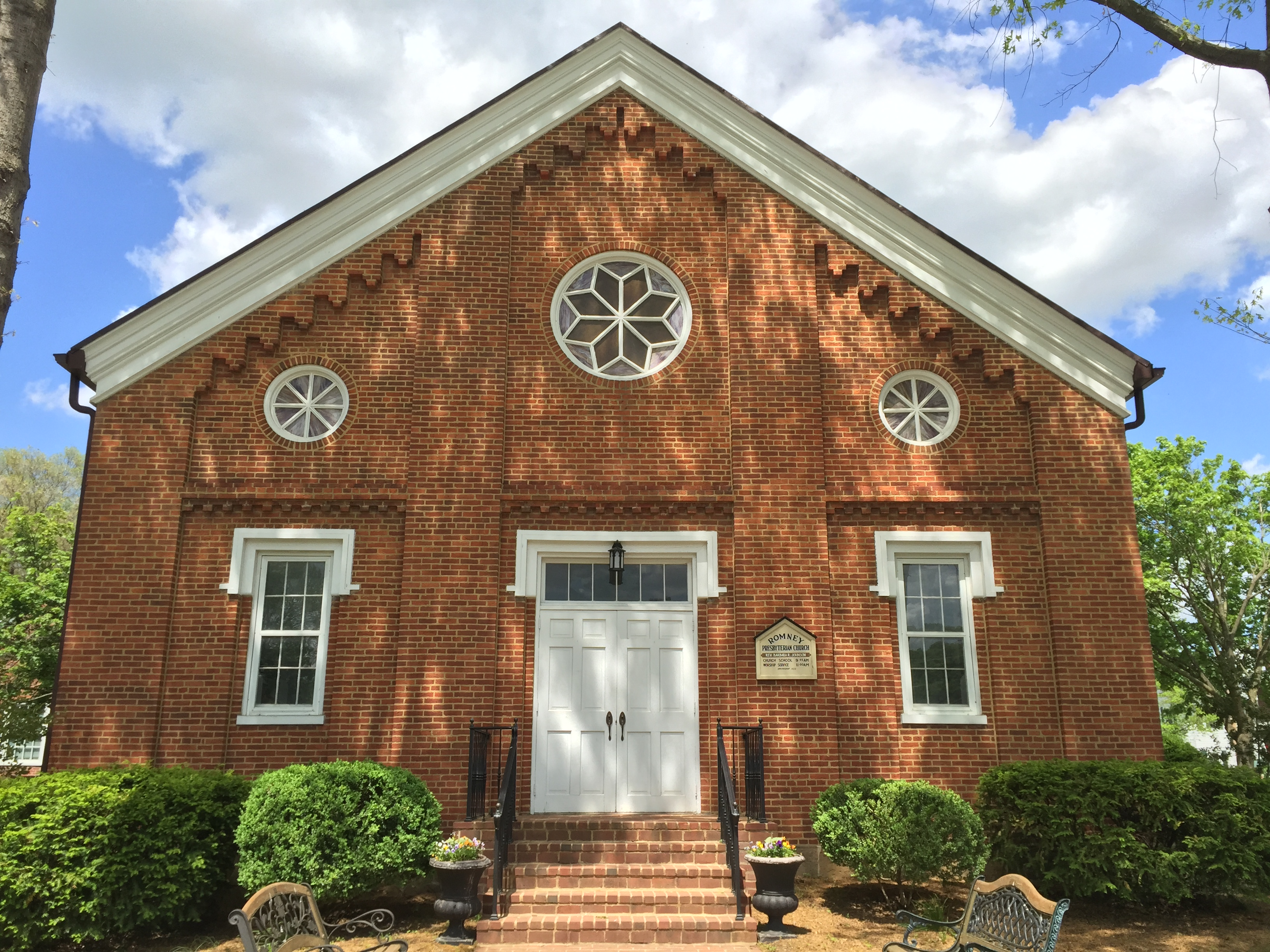 Romney Presbyterian Church (1860) is a mid-19th century church at the corner of Rosemary Lane and Marsham Street in Romney, West Virginia, United States. The church was used as both a stable and a hospital during the American Civil War. Romney Presbyterian Church belongs to the Presbyterian Church (USA) denomination. Photographed by Justin A. Wilcox of Washington, D.C. on May 10, 2015.